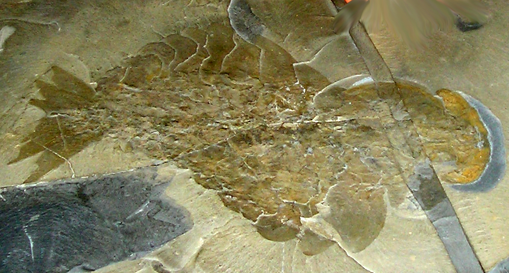 Image of the first complete anomalocaris fossil found, residing in the Royal Ontario Museum, Toronto.